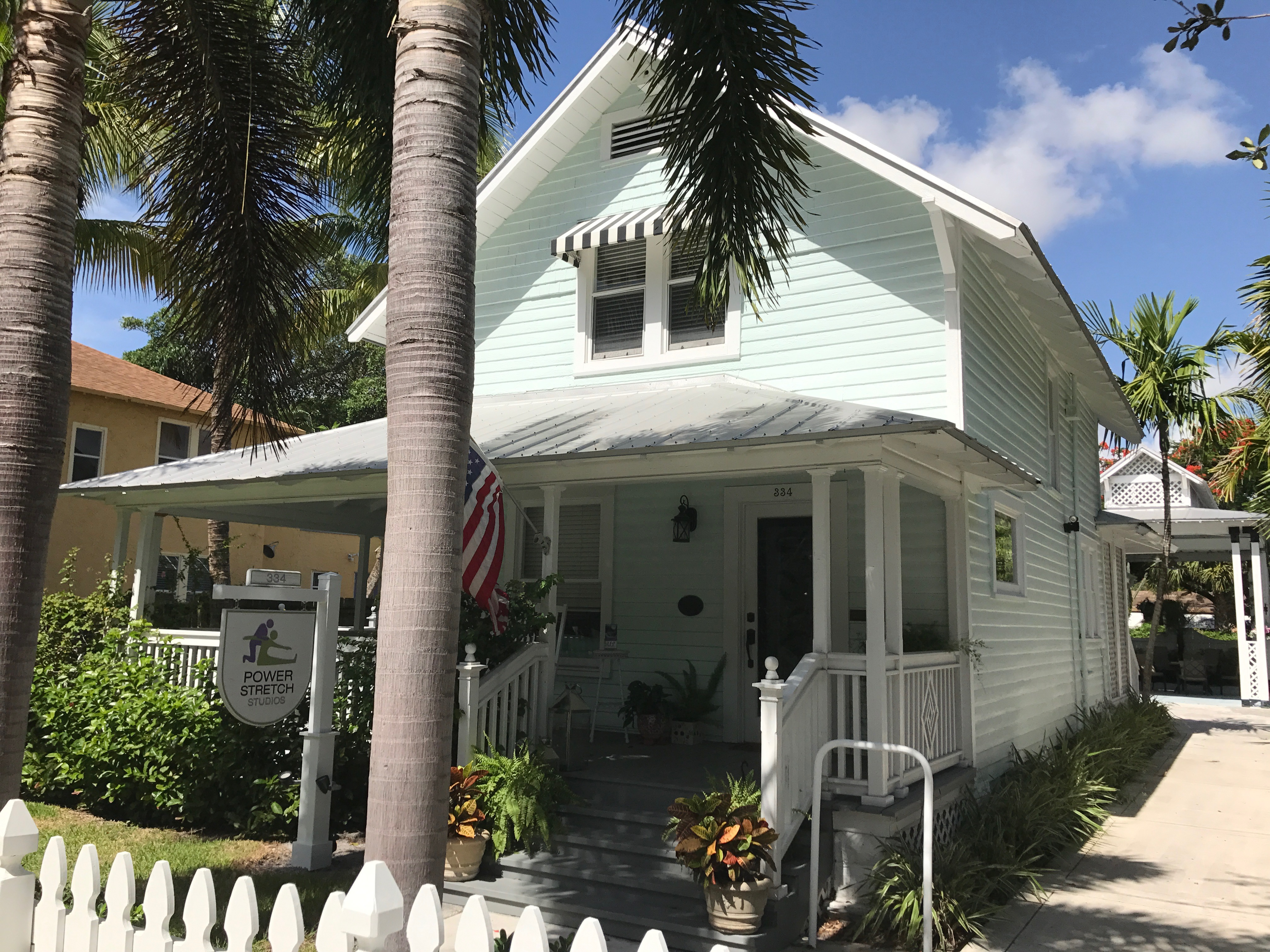 Gwynn House, built in 1907 is the third oldest house in Delray Beach